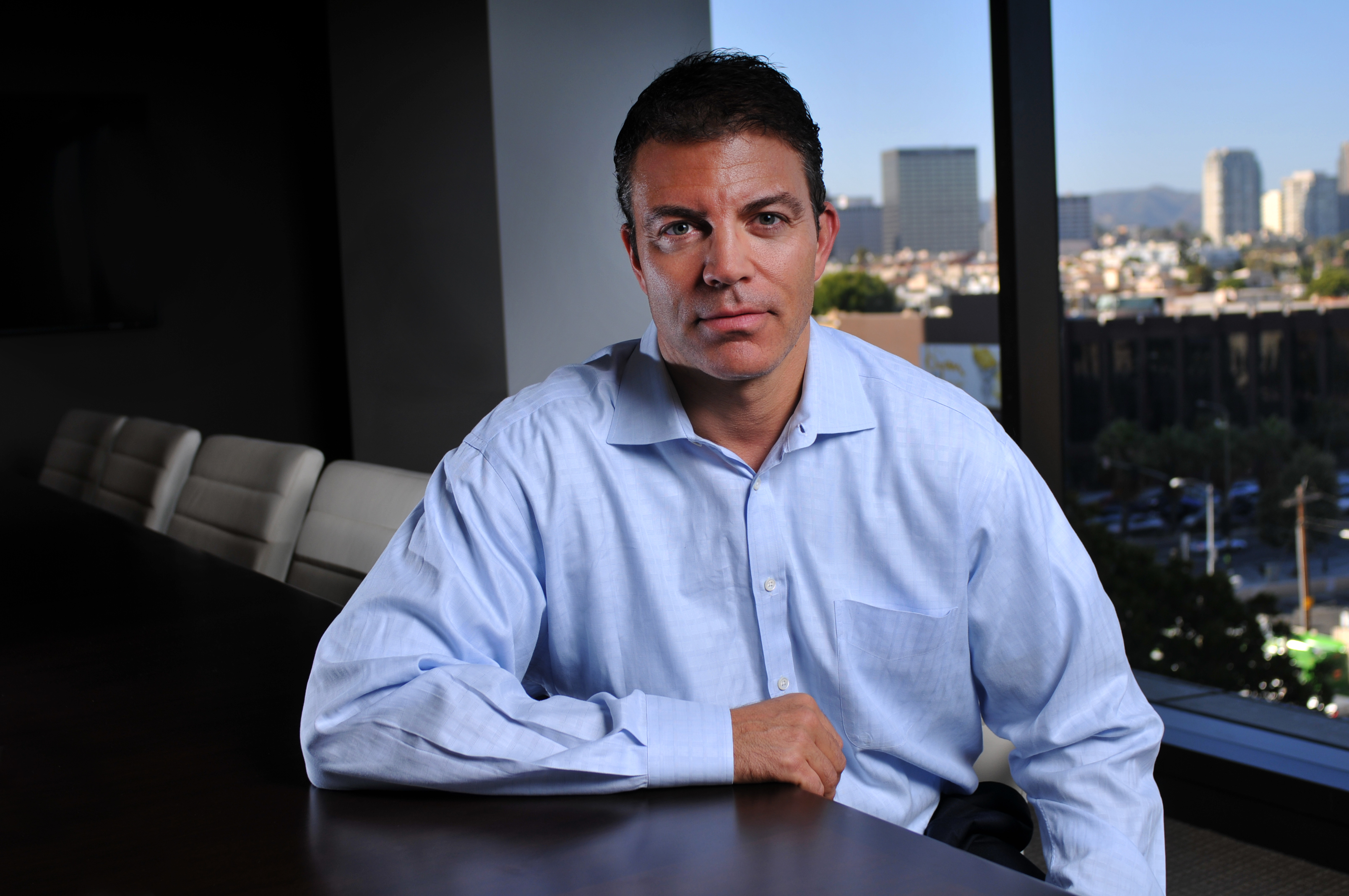 This is a photo of health economist Tomas Philipson